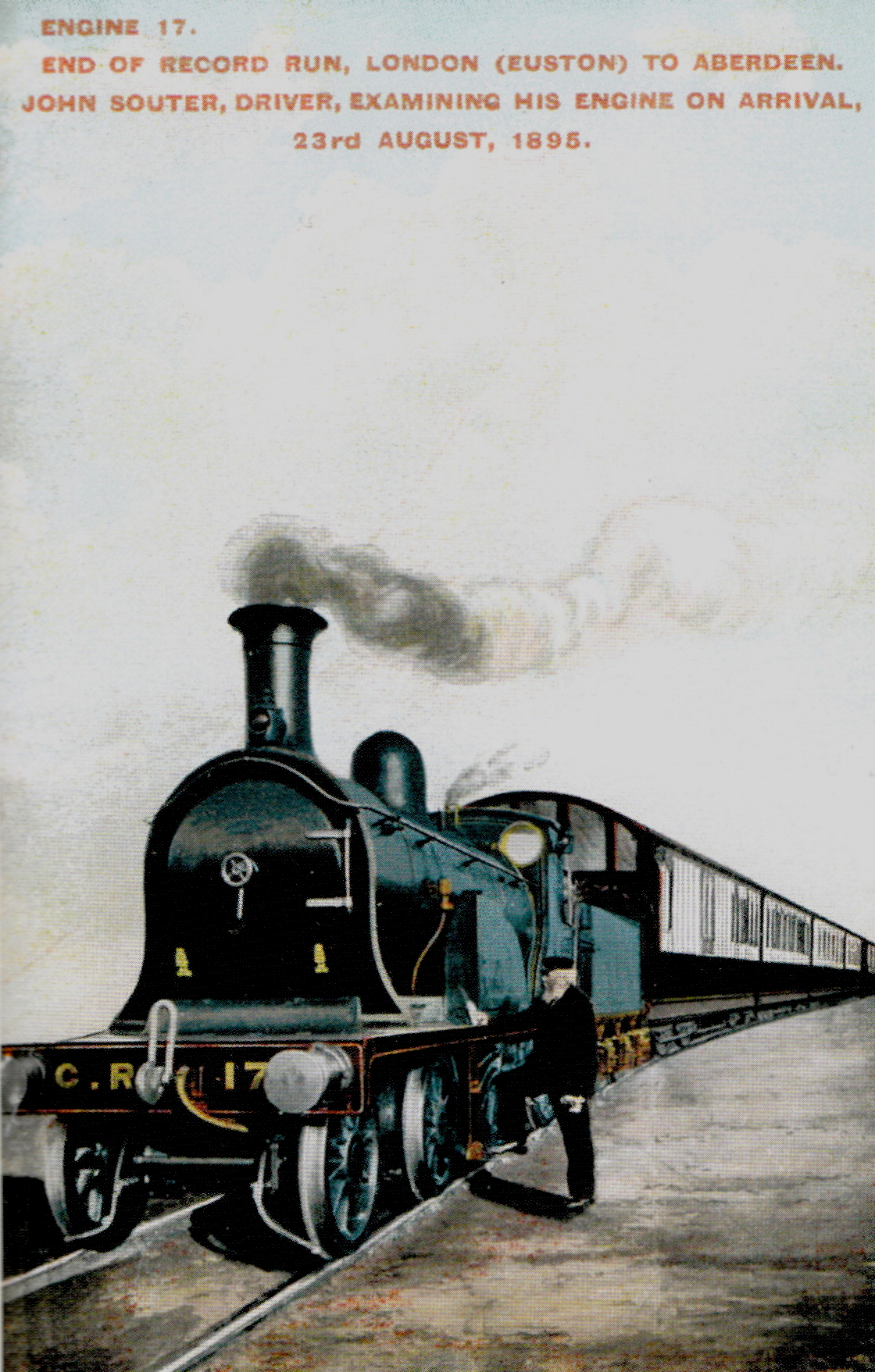 Caledonian Railway postcard showing engine driver John Souter at the end of the record breaking London to Aberdeen railway journey, 23 August 1895.